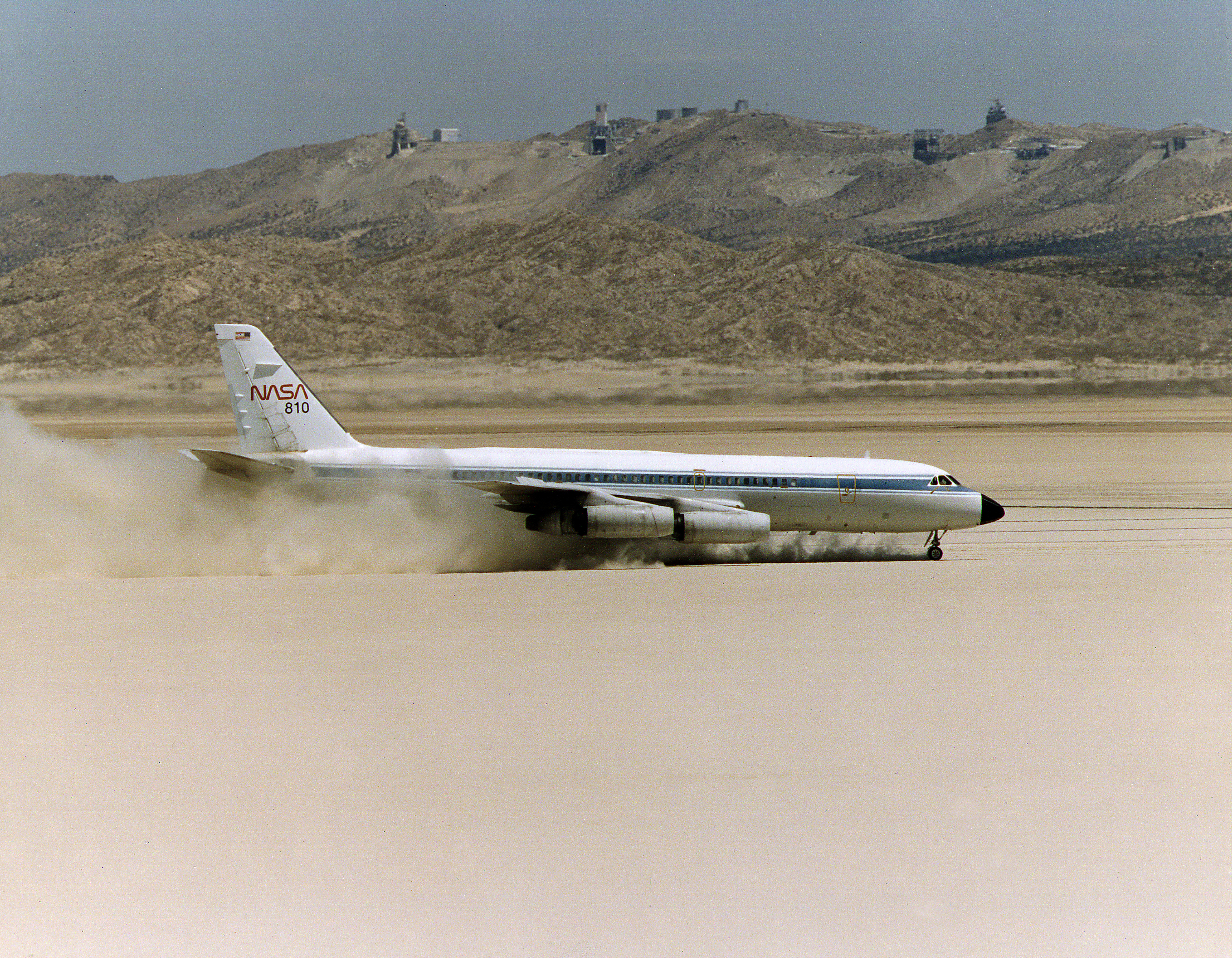 Convair CV 990 NASA 810 (N810NA), CV-990 Landing Systems Research Aircraft (LSRA) during final Space Shuttle tire test, NASA Image NASA's Dryden Flight Research Center is located inside Edwards Air Force Base, California